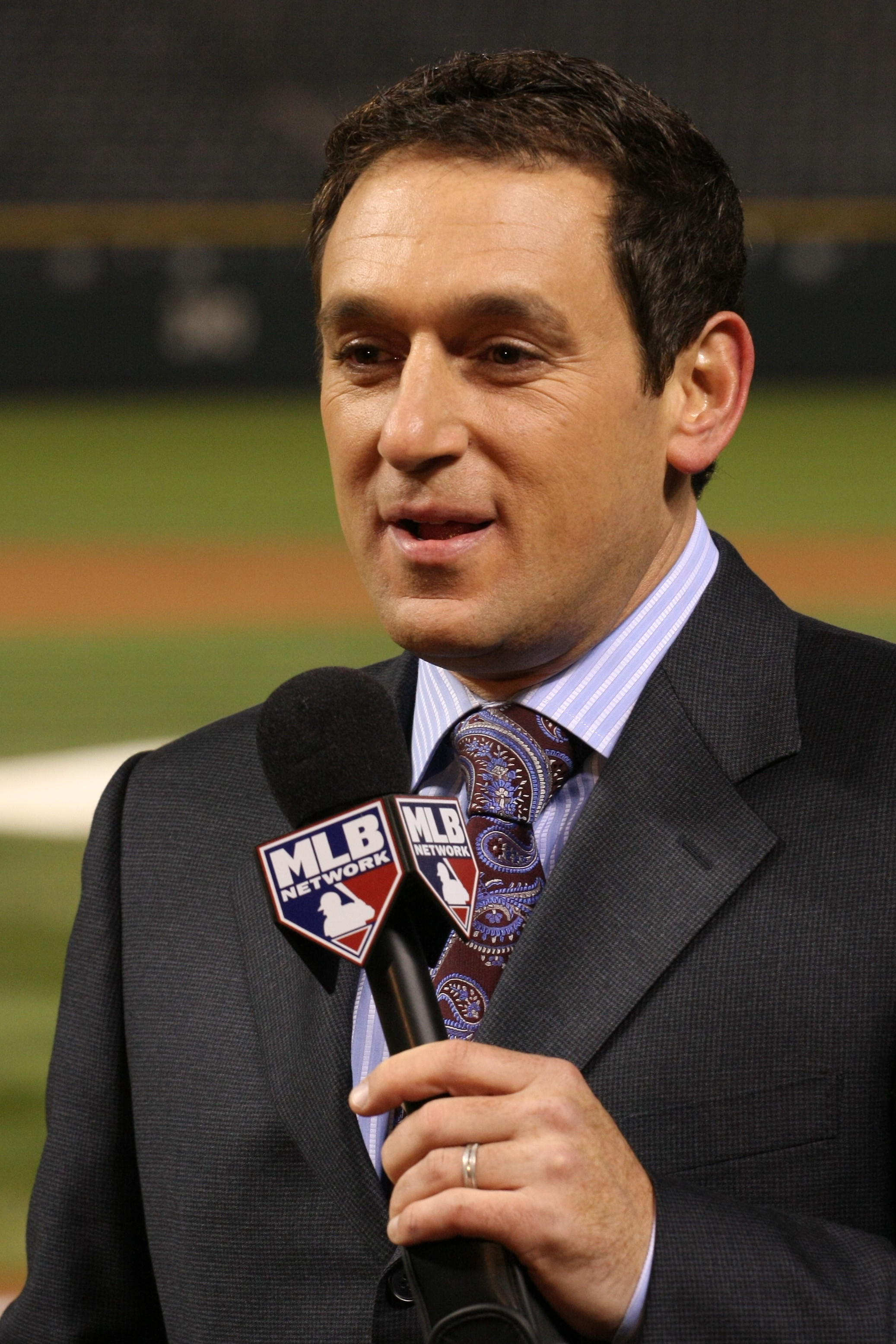 MLB Network reporter Matt Yallof at Coors Field, 2009.